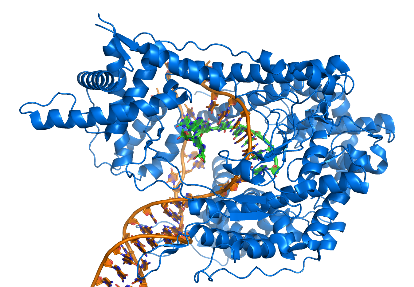 Cartoon representation of T7 RNA Polymerase (blue) producing mRNA (green) from a double-stranded DNA template (orange). Based on PDB ID 1MSW